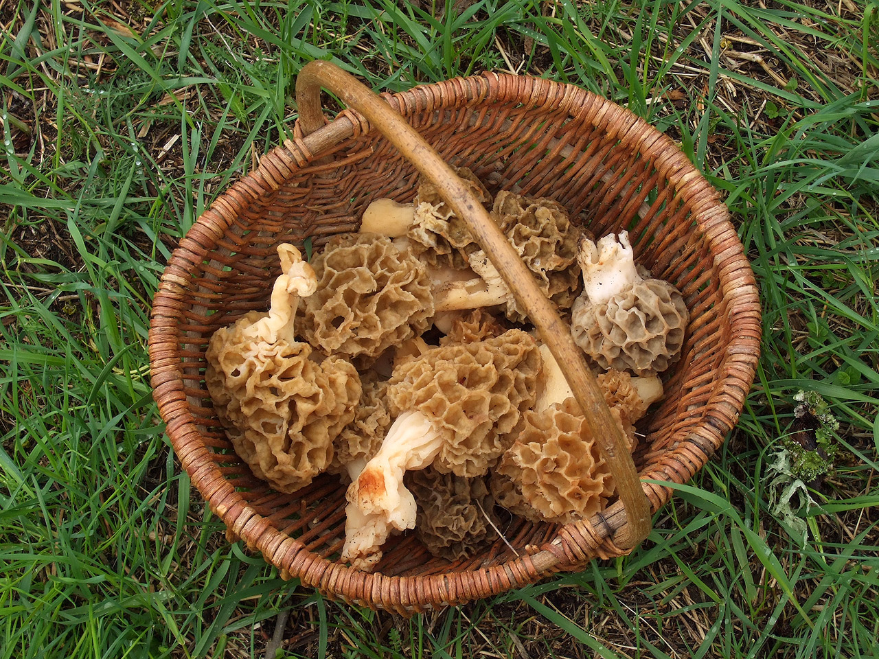 Morchella esculenta basket